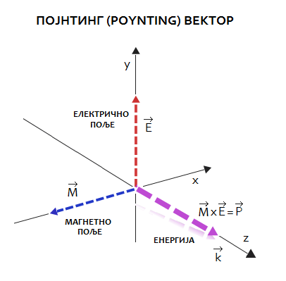 ПОЈНТИНГ ВЕКТОР